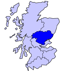 one of the former subdivisions of Scotland